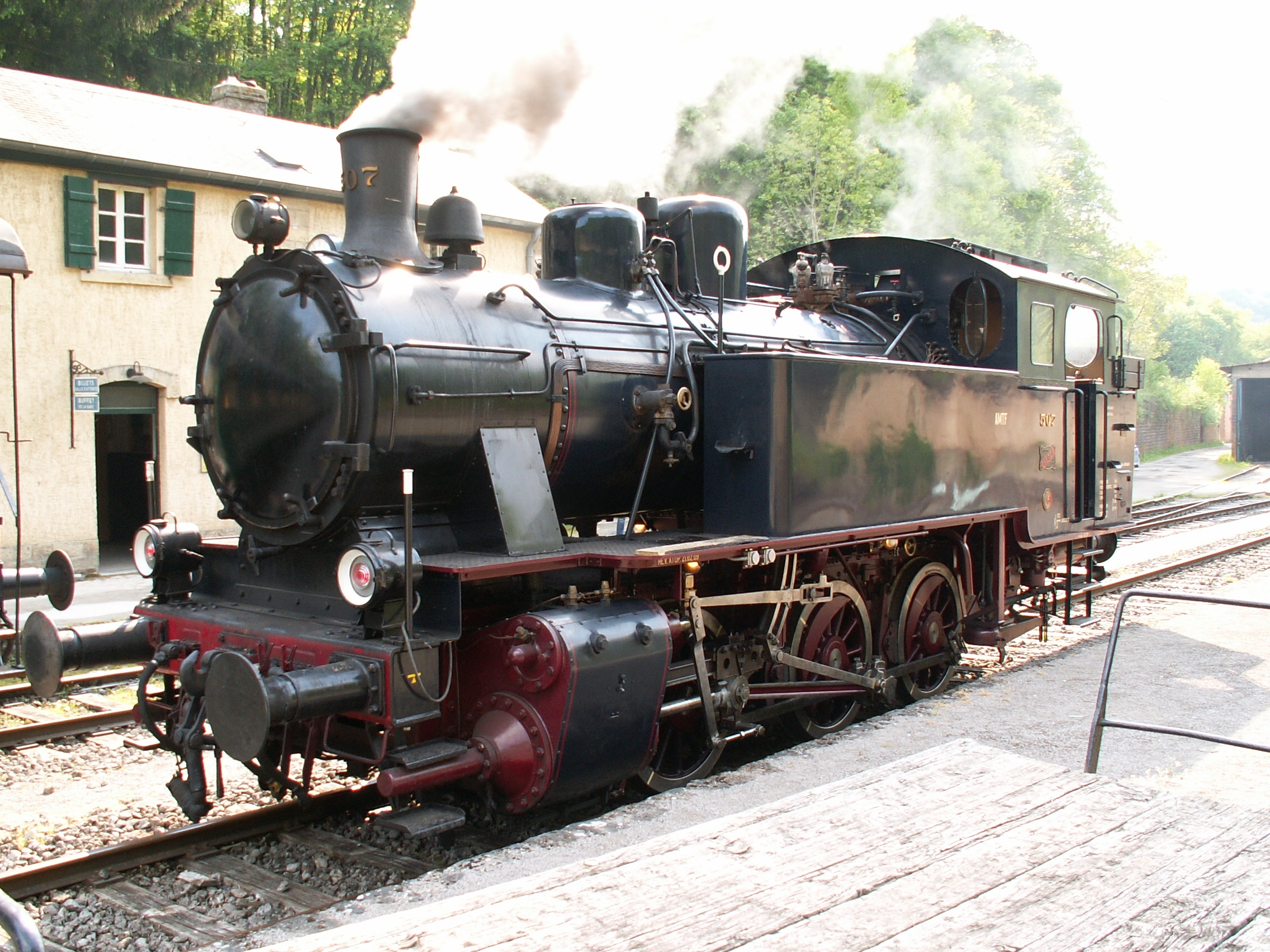 Steam locomotive 507 (typ Kriegslok KDL-7, buildt by Energie in Marcinelle - Belgium) at Fond-de-Gras station (Luxemburgisch heritage railway Train 1900.